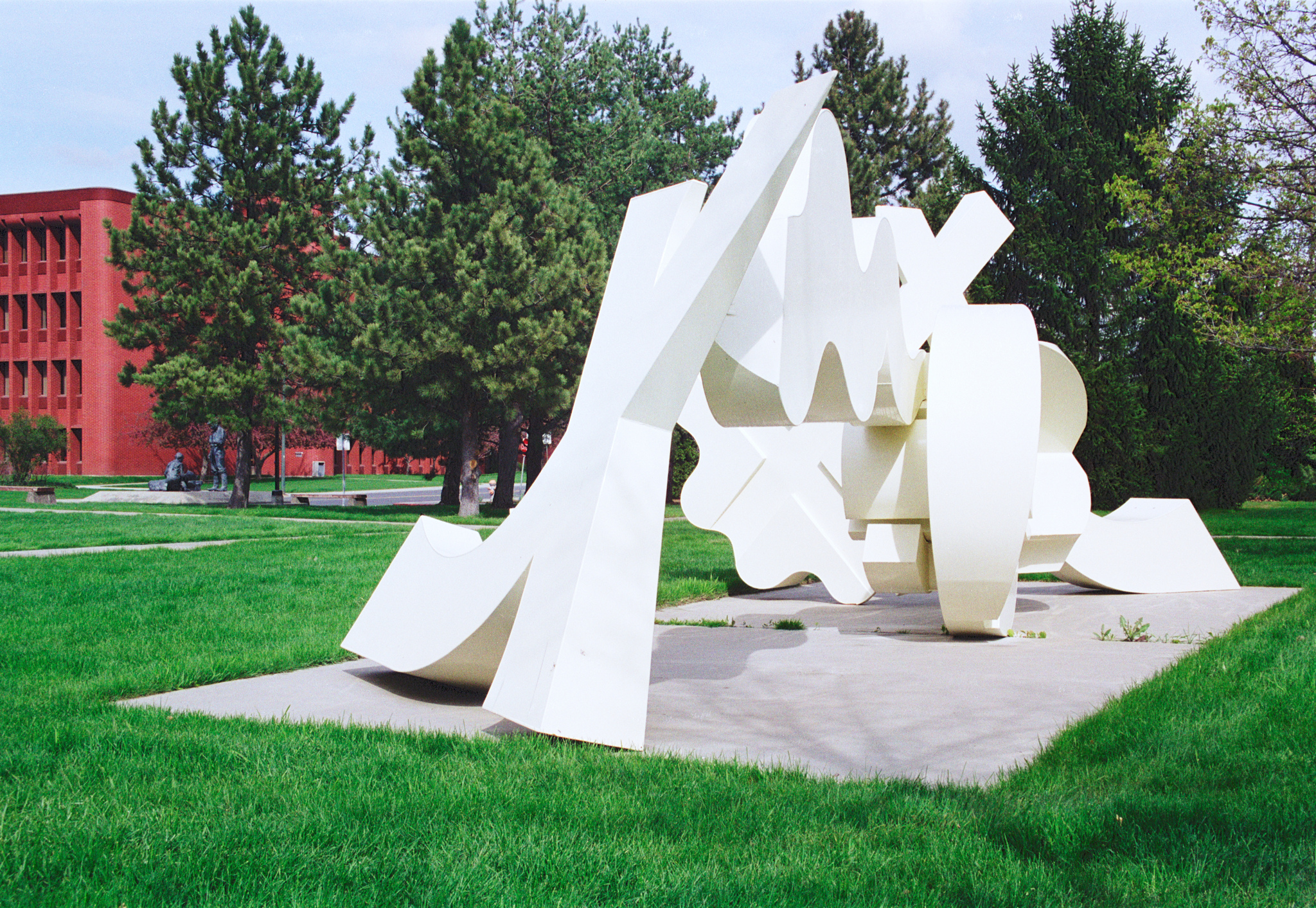 00-02-32: campus artwork